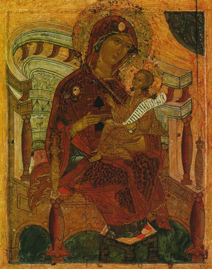 The Virgin "Mount Not Hewn with Hands" from Pereslavl Zalessky, 16th century. Tempera on wood.